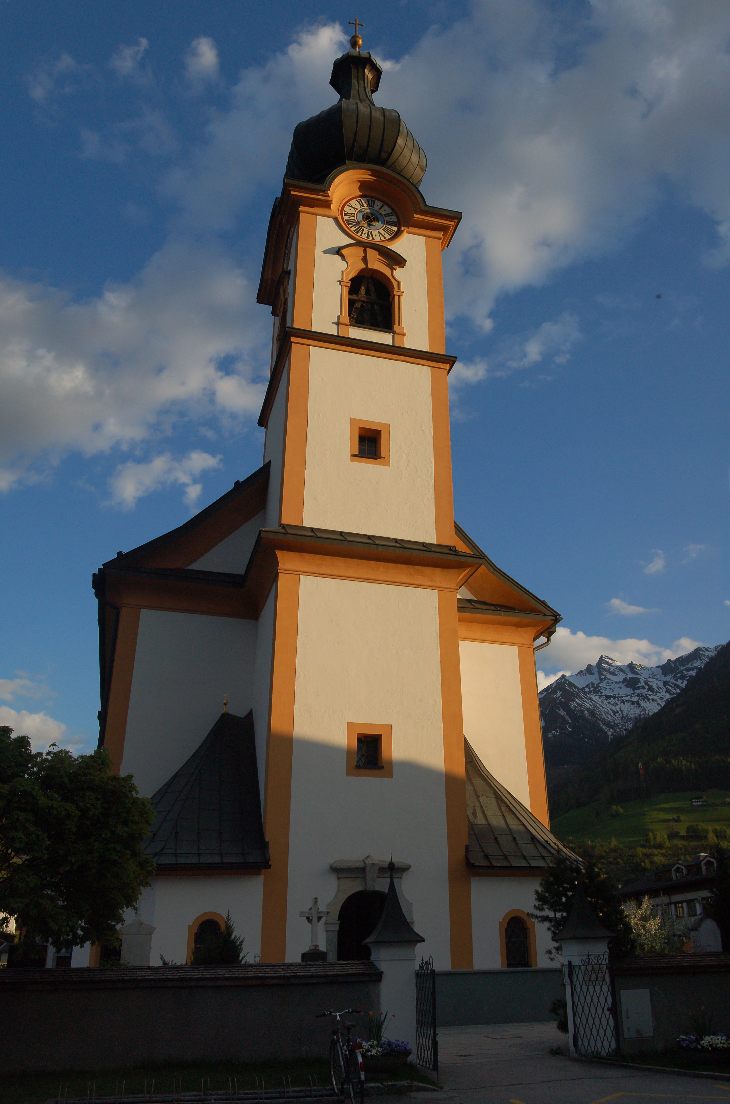 Annakirche (St. Anne's Church) in Mittersill, Austria